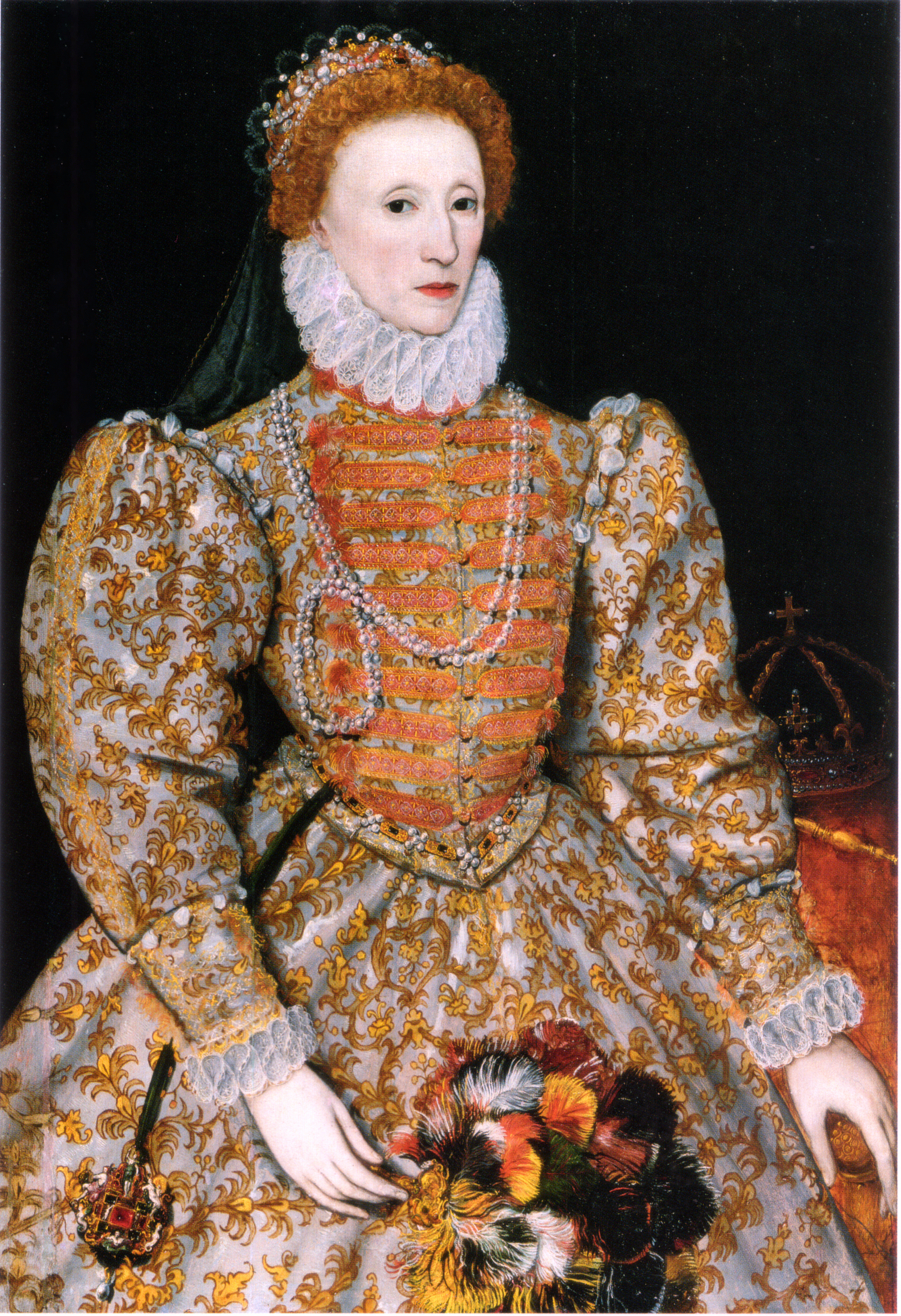 Rescan of the Darnley Portrait of Elizabeth I of England.